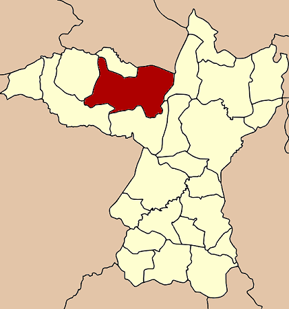 Map of Khon Kaen Province, Thailand, highlighting the district Phu Wiang (อำเภอภูเวียง)